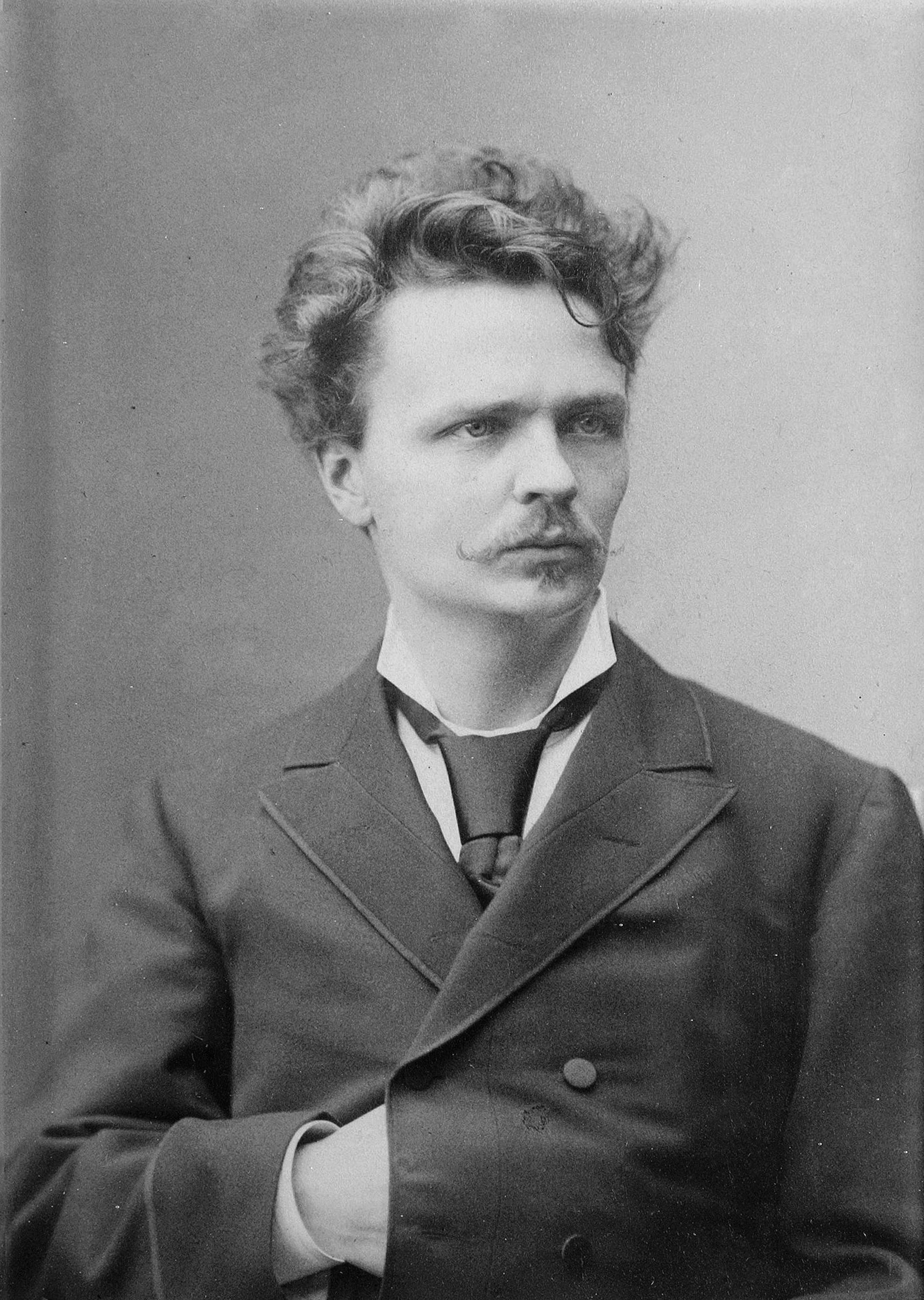 Photograph of August Strindberg by Robert Roesler in 1881